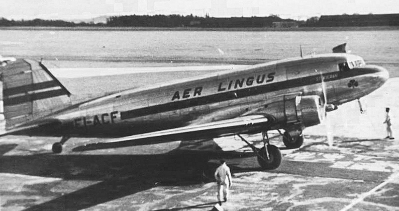 Douglas DC-3 of Aer Lingus at Manchester (Note that this aircraft [EI-ACF] was damaged beyond repair after a crash in 1953)[1]